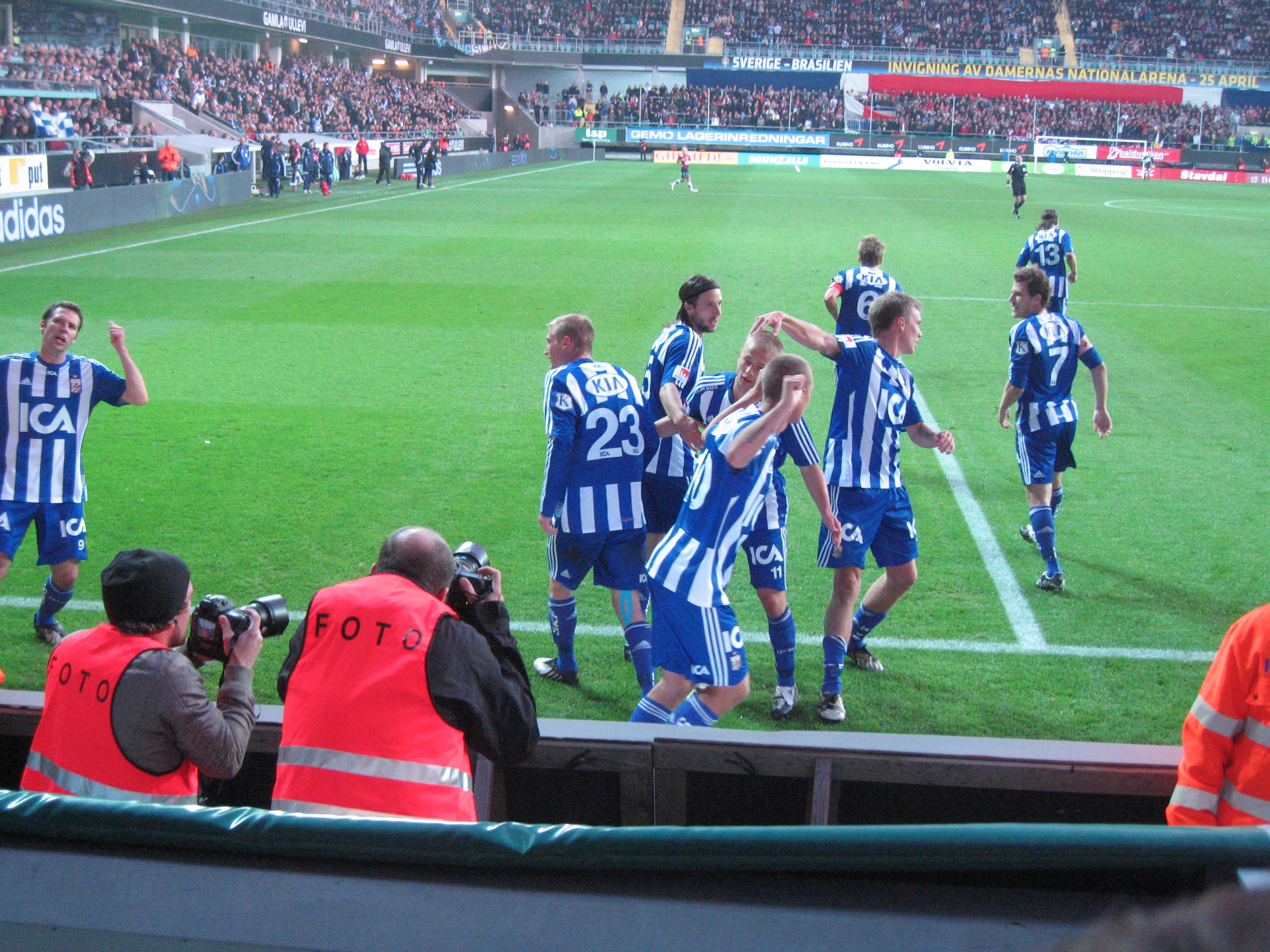 Nine players of IFK Göteborg in the 2009 Allsvenskan season celebrate the 3-0-goal agains Örgeyte IS at Gamla Ullevi, 20 April 2009. IFK Göteborg won, 3-0.